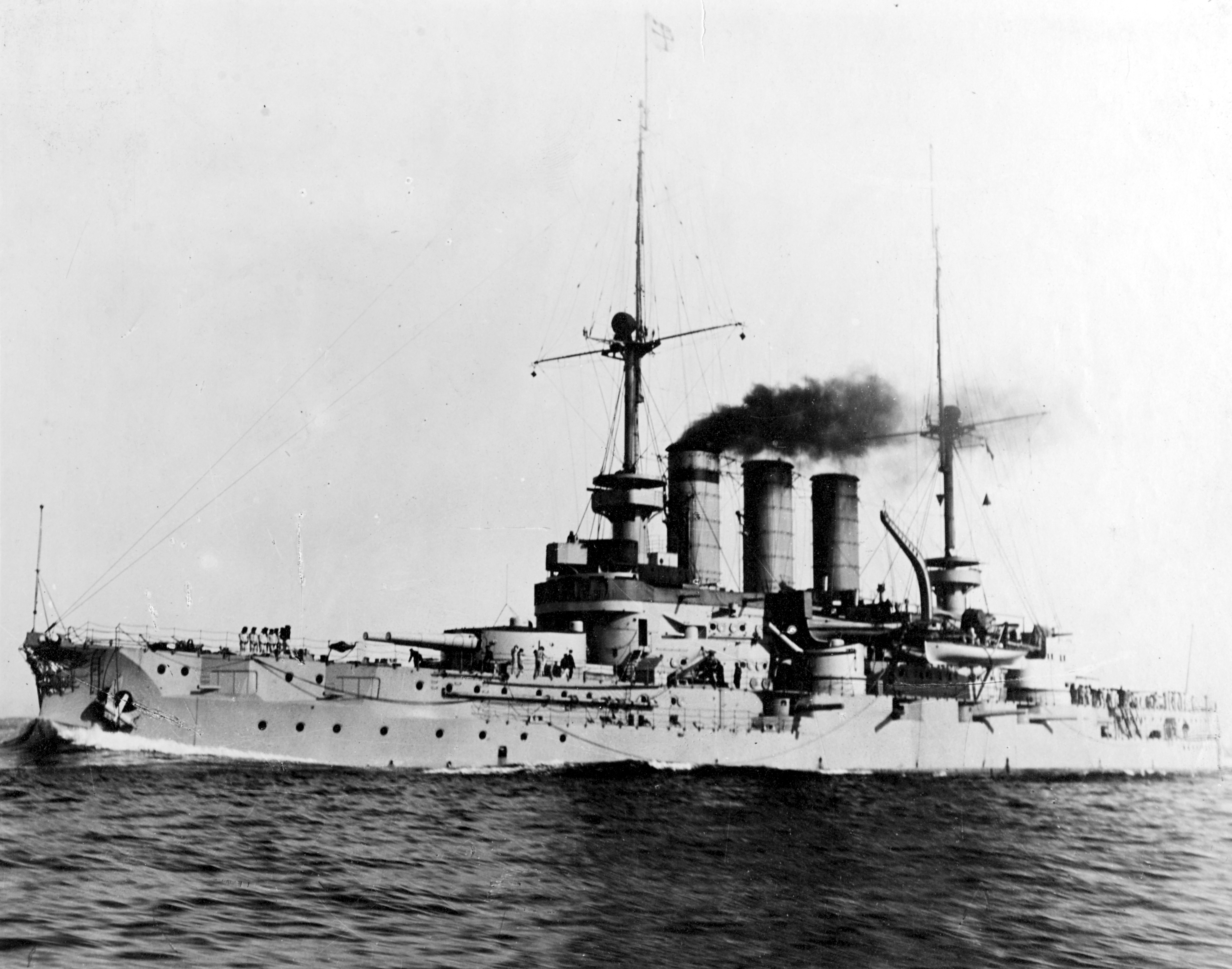 Title: PREUSSEN (German battleship, 1903-1931) Caption: Photographed by Arthur Renard of Kiel, in an original print dated 1907 (possibly the date of printing rather than of actual photography), soon after the ship entered service on 12 July 1905.